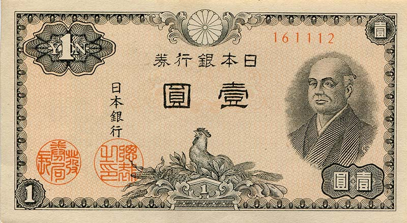 Series A 1 Yen Bank of Japan note. Portrait: Ninomiya-Sontoku. First issued in 1946. Issue suspended in 1958. Legal tender. 124mm x 68mm.